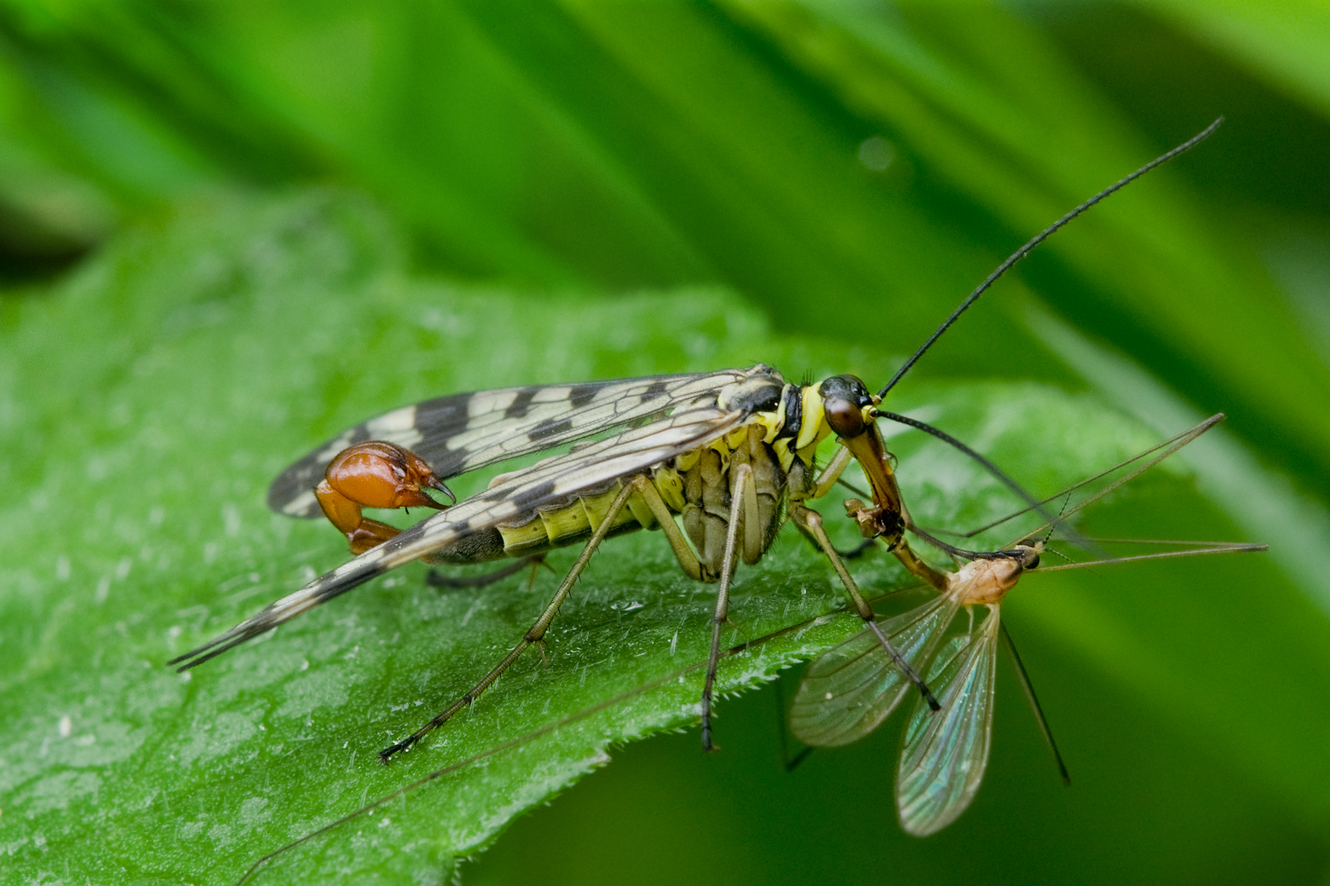 Scorpion Fly (Panorpa communis) Panorpa is a genus of scorpionflies that is widely dispersed in the Northern hemisphere.